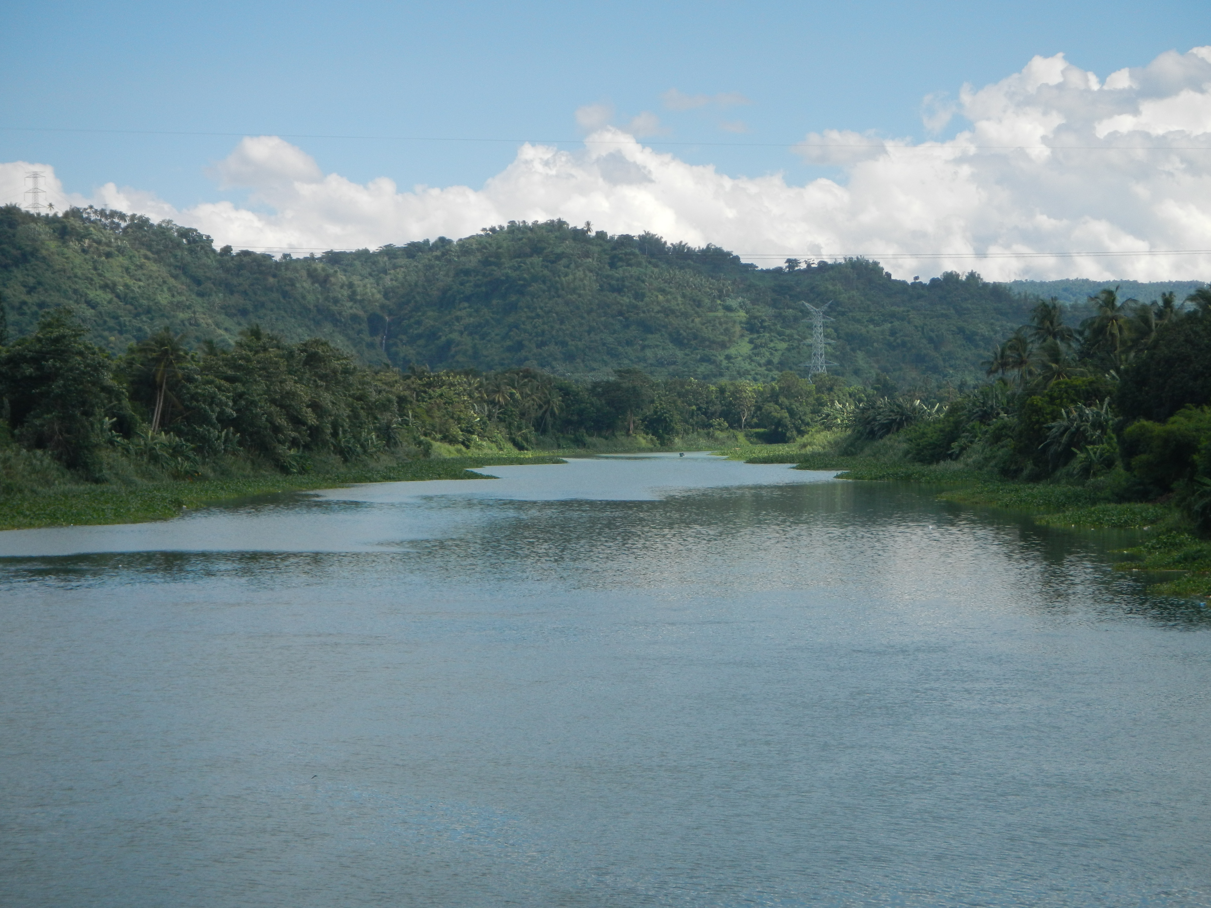 UploadWizard photos --- (general description) of (landmarks, heritage, culture, comprehensive, photography) of --- the --- Poblacion, Lumban Plaza, the --1578 Chuch of Lumbang, [1] Lumban, Laguna[2] -- Saint Sebastian the Martyr Parish Church of Lumban[3] (In 1578 the first Church was built by Father Juan de Plasencia destroyed by Fire; 1889 the Church was restored by Father Manuel Rodriguez. 14° 17.843N 121° 27.547E along the bank of the Lumban River drains out to Laguna Lake. Episcopal District IV [4] -- Roman Catholic Diocese of San Pablo [5] [6] [7] [8] [9] Poblacion, Lumban 4014 Laguna, Philippines Feast day: January 20 Parish Priest: Father Ricardo B. Basquiñez, MFParochial Vicar: Father Judah Ben-hur S. Pigon, MF Episcopal Vicar: Father Leandro L. Bariring, Jr. VICARIATE OF OUR LADY OF GUADALUPE Vicar Forane: Father Noel C. Artillaga.) -- & --- Lumban Municipal Hall (Lumban proper) [10] Coordinates: 14°17'49"N 121°27'33"E [11] [12] Coordinates: 14°17'20"N 121°32'42"E (caliraya springs) -- Lumban, Laguna[13] & --- – Lumban,_Laguna - the Lumban Bridge (BO2469LZ STA.93+880 at Lumban-Caliraya-Cavinti Road[14] -2 lane concrete and steel bridge over the Lumban River connecting all eastern towns of Laguna Coordinates: 14°17'30"N 121°27'34"E [15] is geographically located at latitude(14.2905 degrees) 14° 17' 25" North of the Equator and longitude (121.4582 degrees) 121° 27' 29" East of the Prime Meridian on the Map of the world.[16] Lumban River flows through the towns of Lumban, Pagsanjan, and Cavinti also referred the Pagsanjan-Lumban River) & Lumban River (part of Bumbungan River[17] (originates from the Sierra Madre Mountains, in the highlands of Cavinti town, flowing through the town of Pagsanjan and ending in Lumban where it drains to Laguna de Bay)